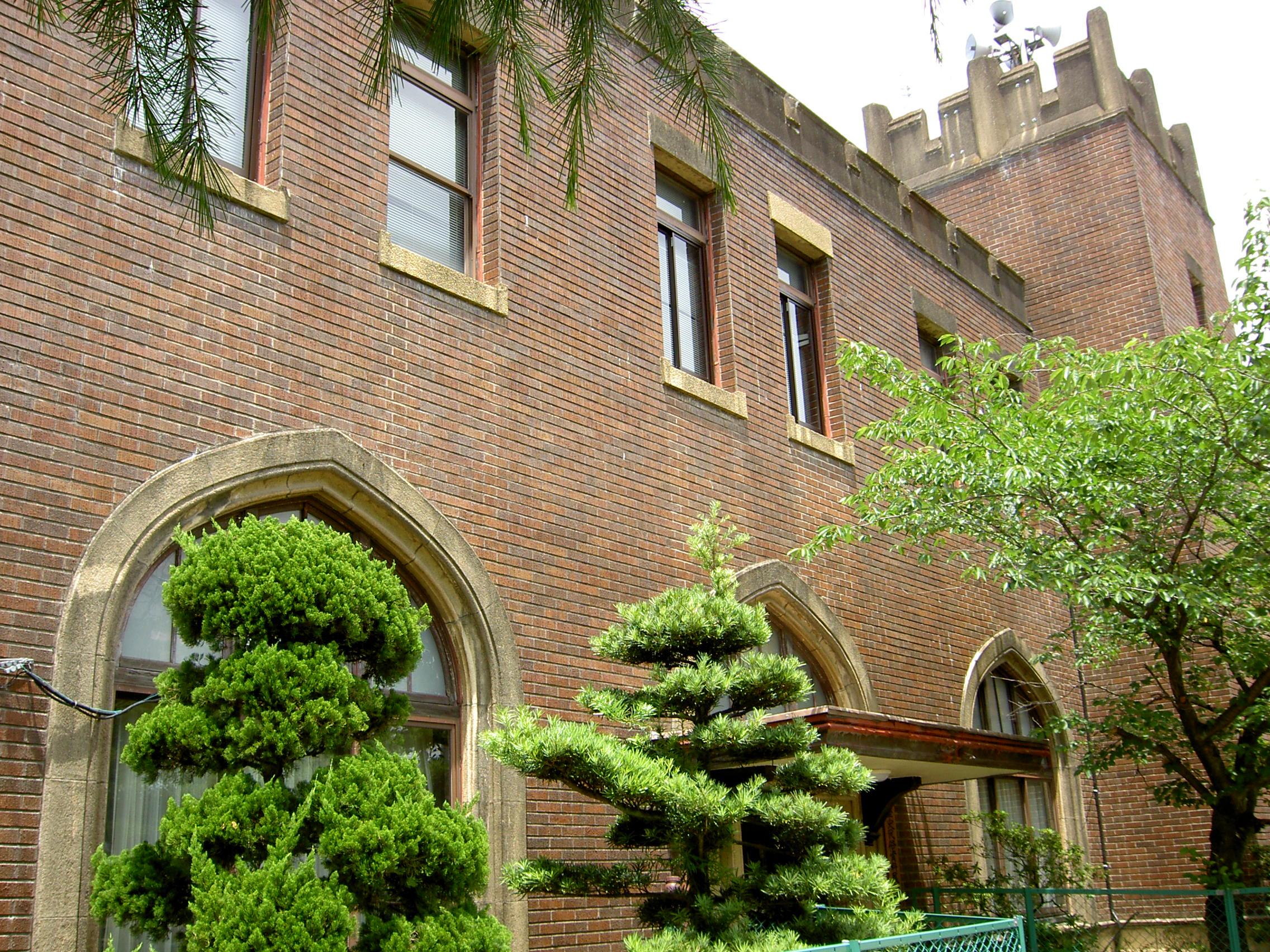 Front entrance of Katano municipal education culture hall. Former Katano mutual financing incorporated company headquarters building. 1929 construction. Reinforced concrete. 2 stories, the part are 3 stories. 6-9-21, Kuraji, Katano-shi, Osaka Japan.